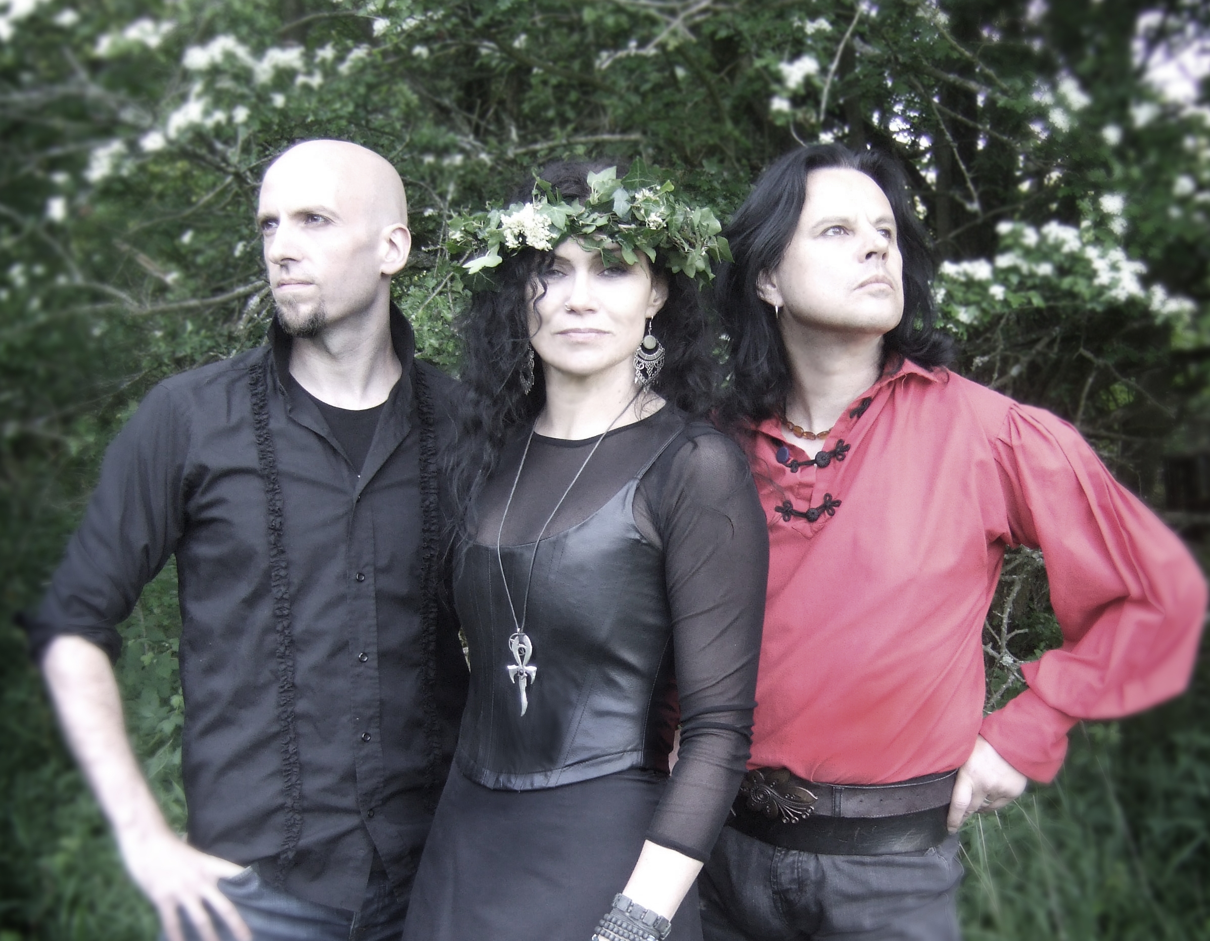 Band Picture of Inkubus Sukkubus 2014